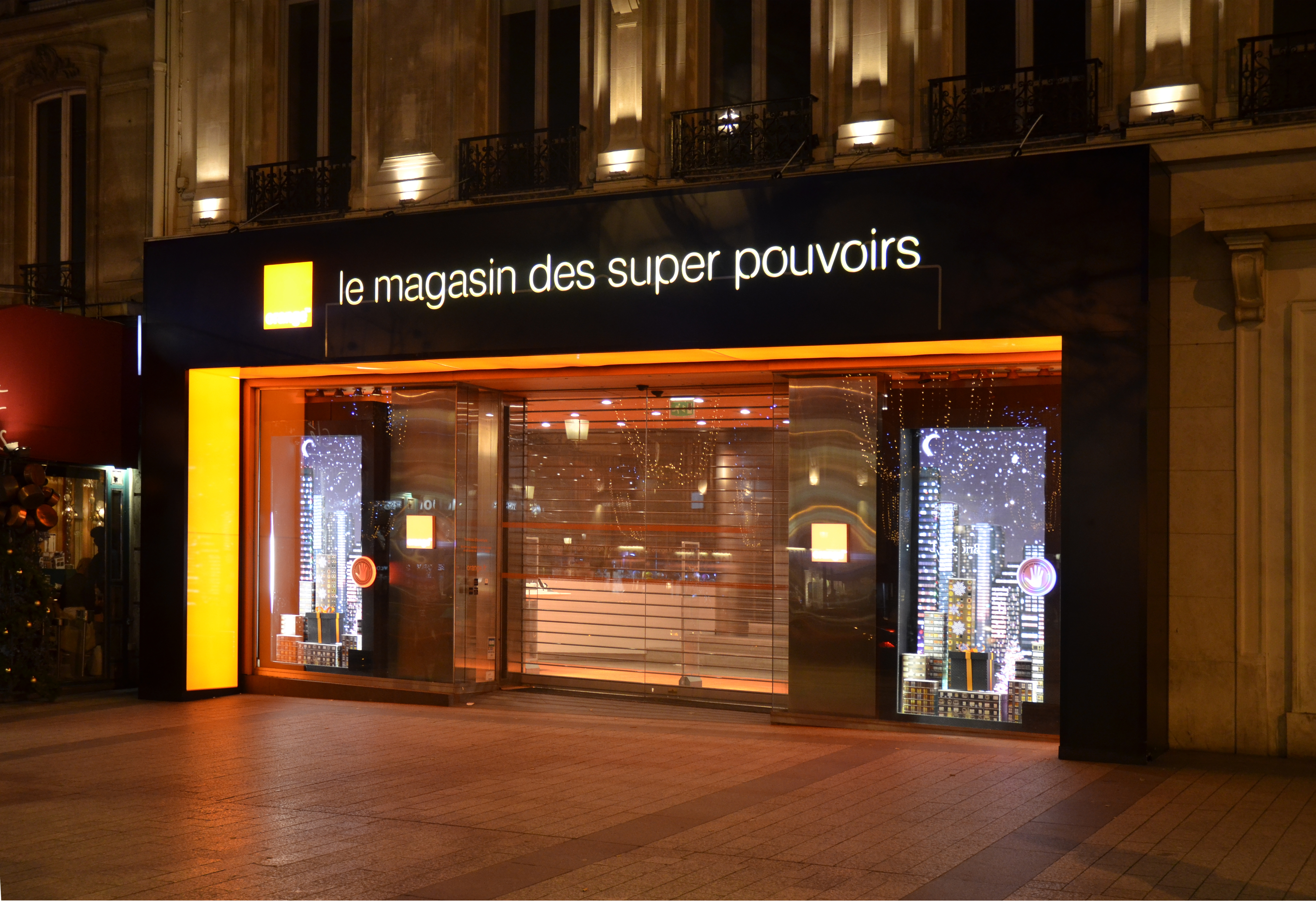 Orange shop, Champs Elysées, Paris.